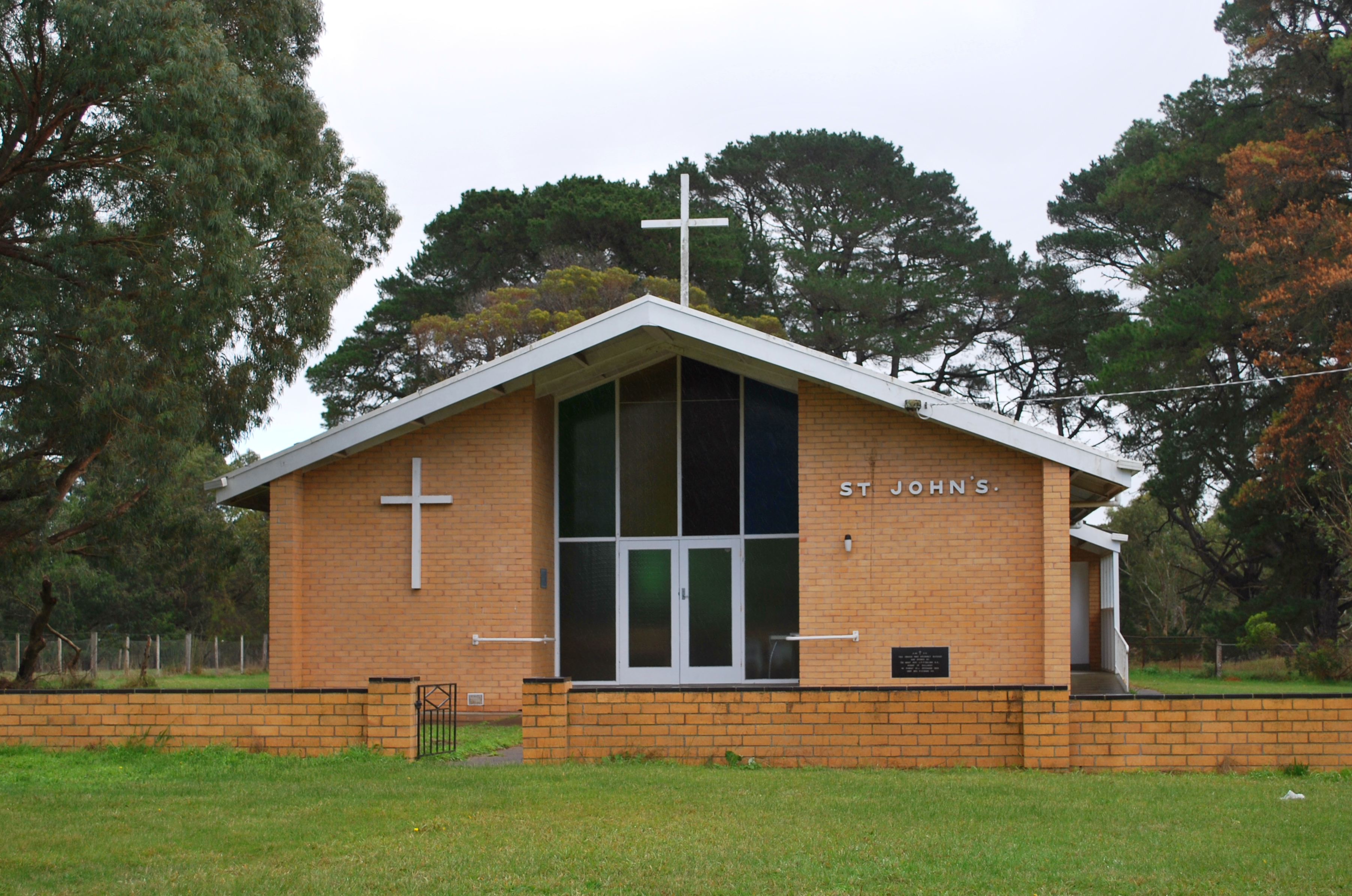 St John's Roman Catholic church at Orford, Victoria